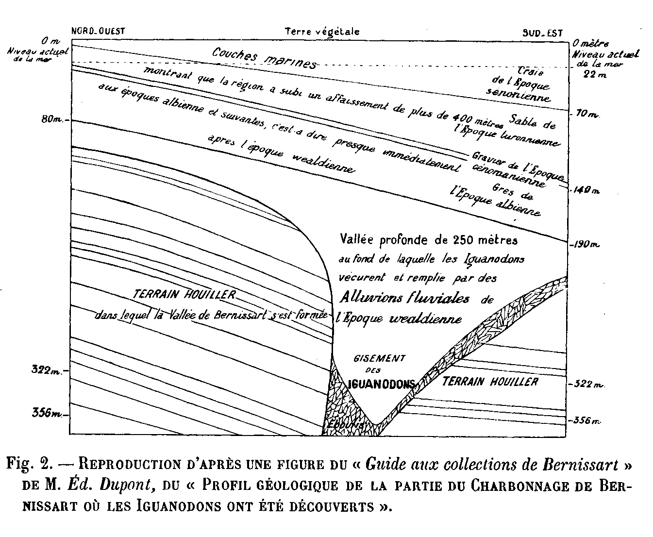 Geological cross section through the Iganodon sinkhole in Bernissart (Belgium) by Edouard Dupont in a publication by Cornet and Schmitz (1898)